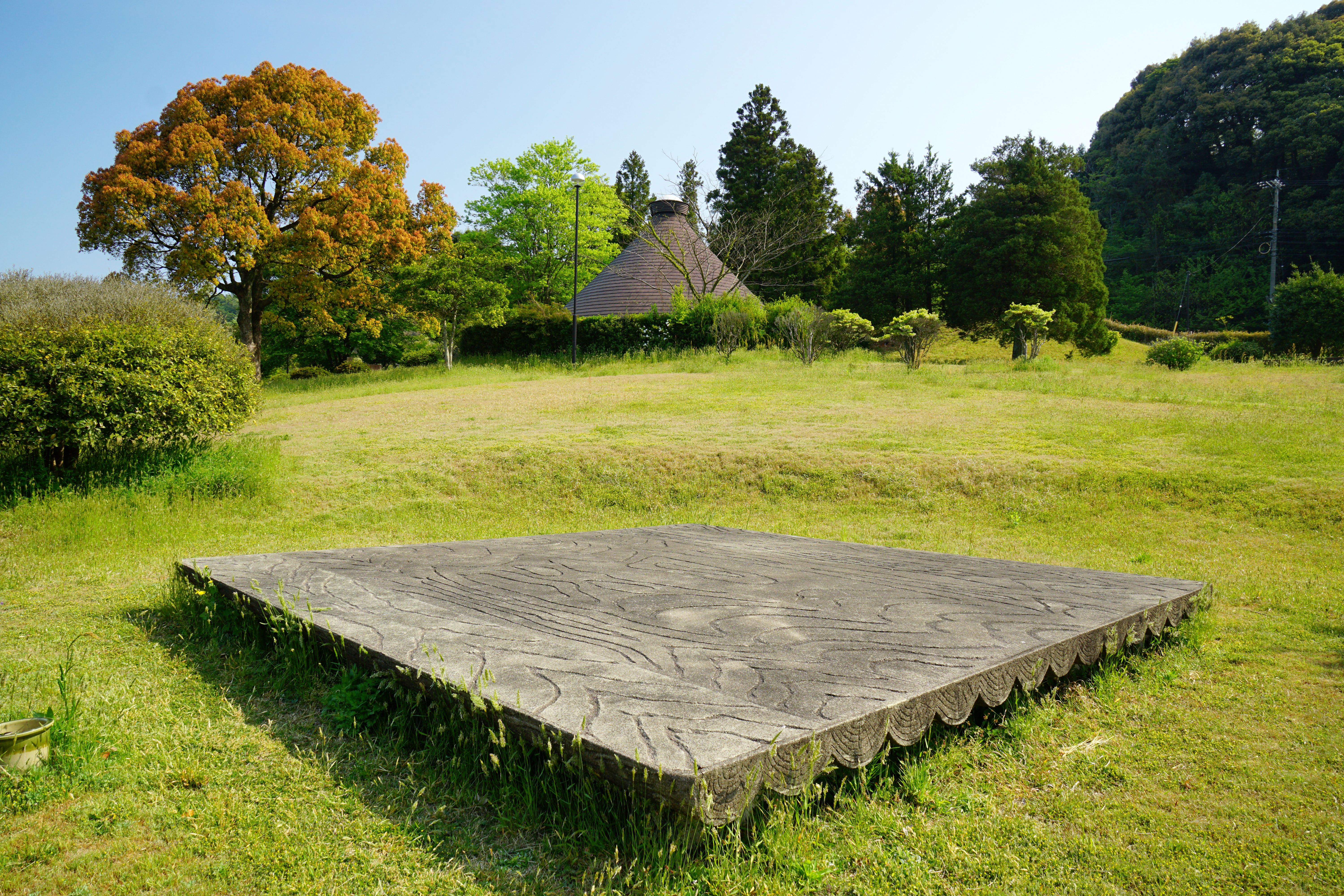 Izumo Tamatsukuri Historical Park, Matsue, Shimane prefecture, Japan.